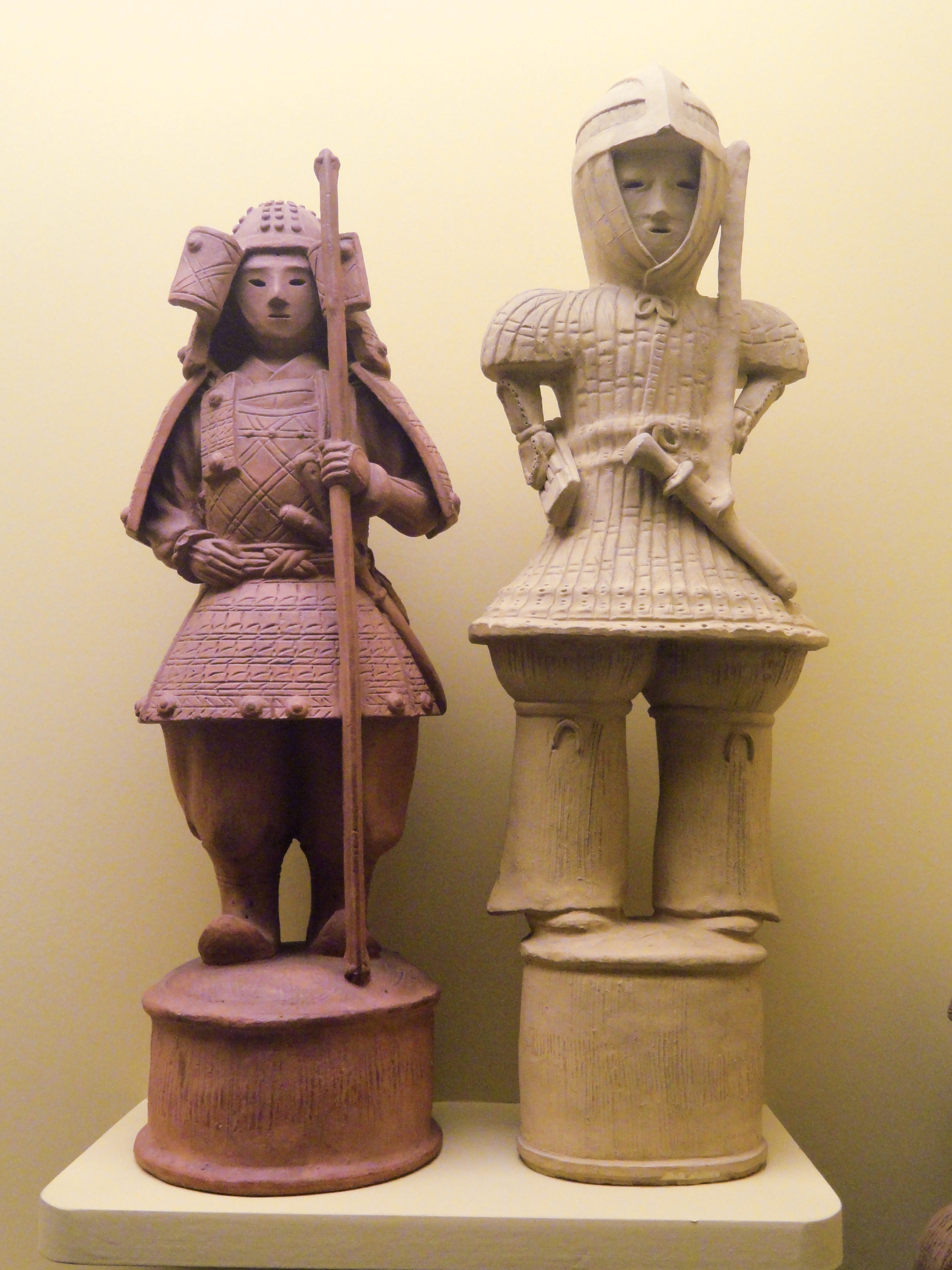 Exhibit in the Asian collection of the American Museum of Natural History, Manhattan, New York City, New York, USA.